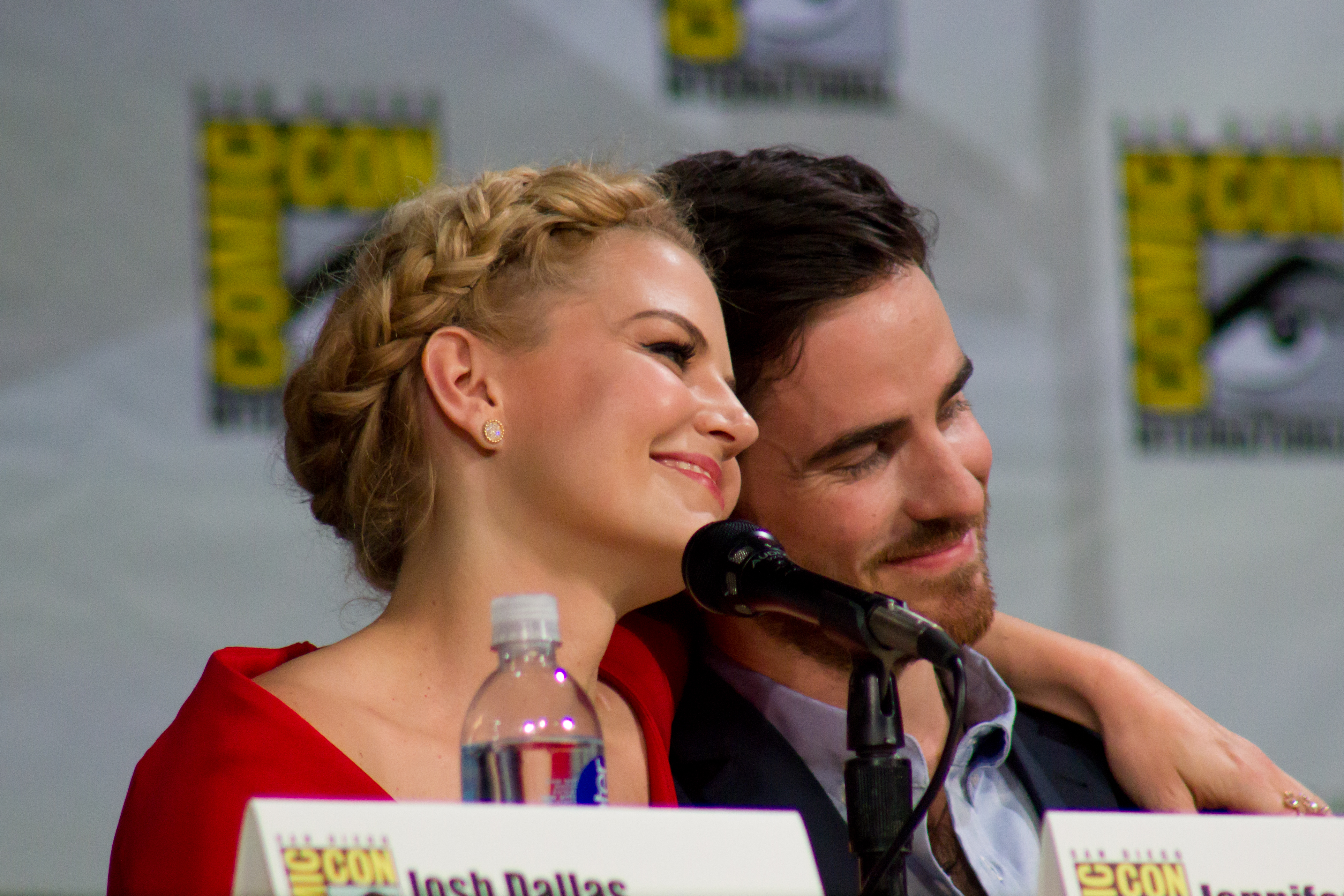 Jennifer Morrison & Colin O'Donoghue Once Upon a Time Panel at the 2014 Comic-Con International.